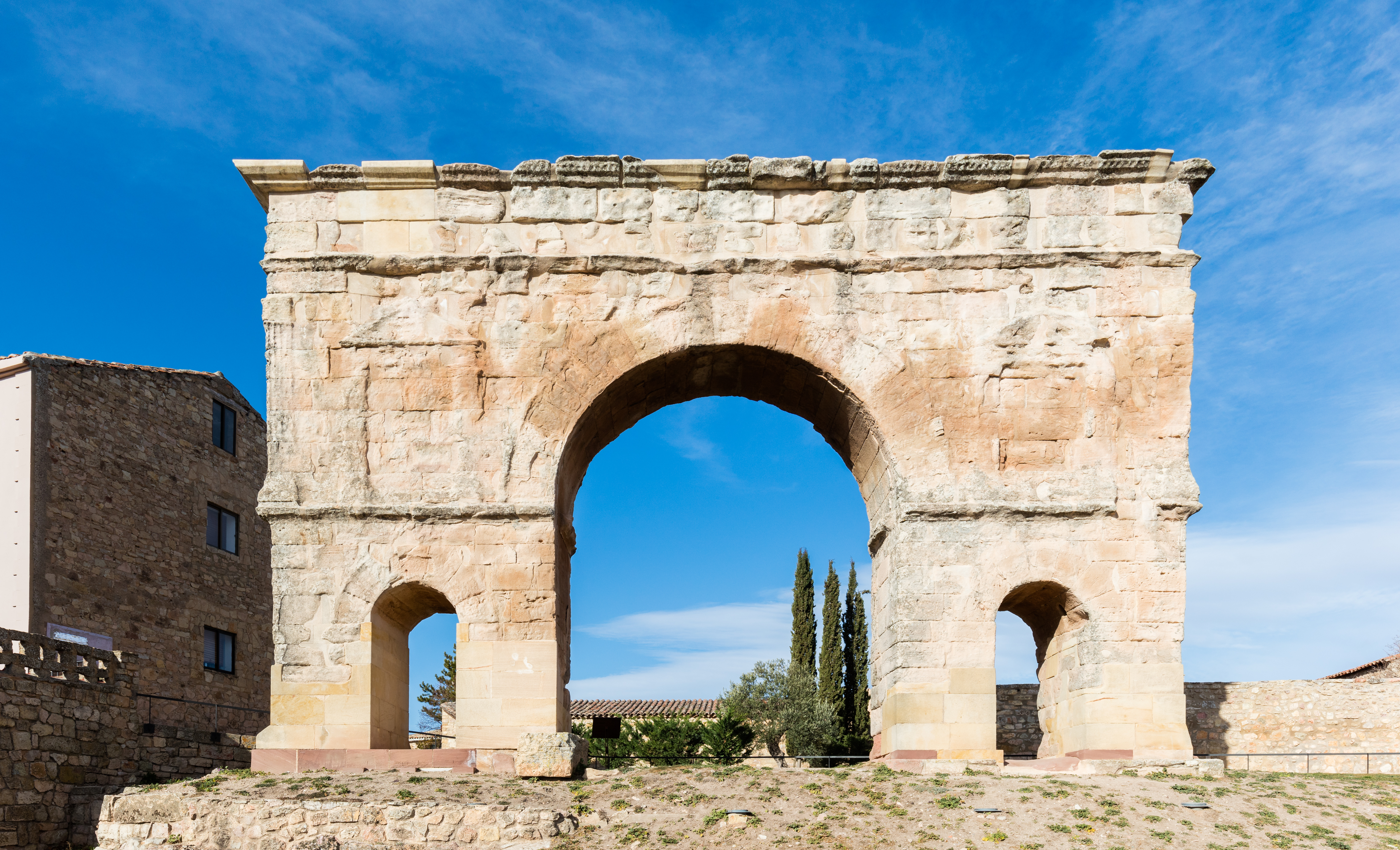 Ancient roman arch, Medinaceli, Soria, Spain